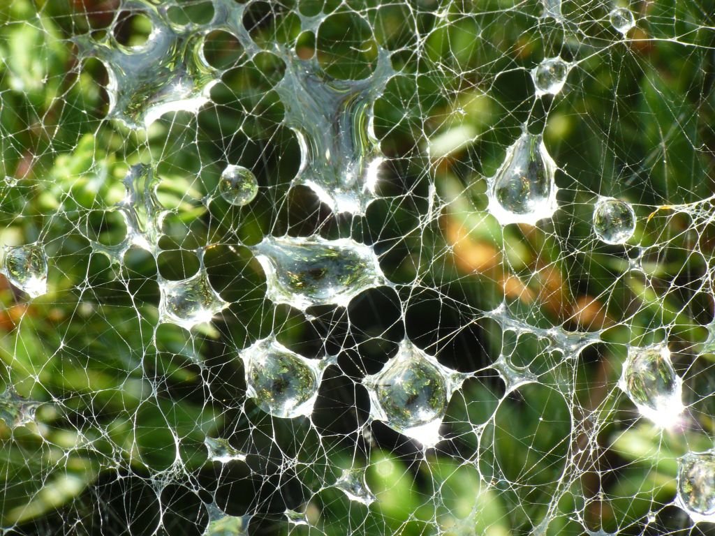 Spider webs, drops